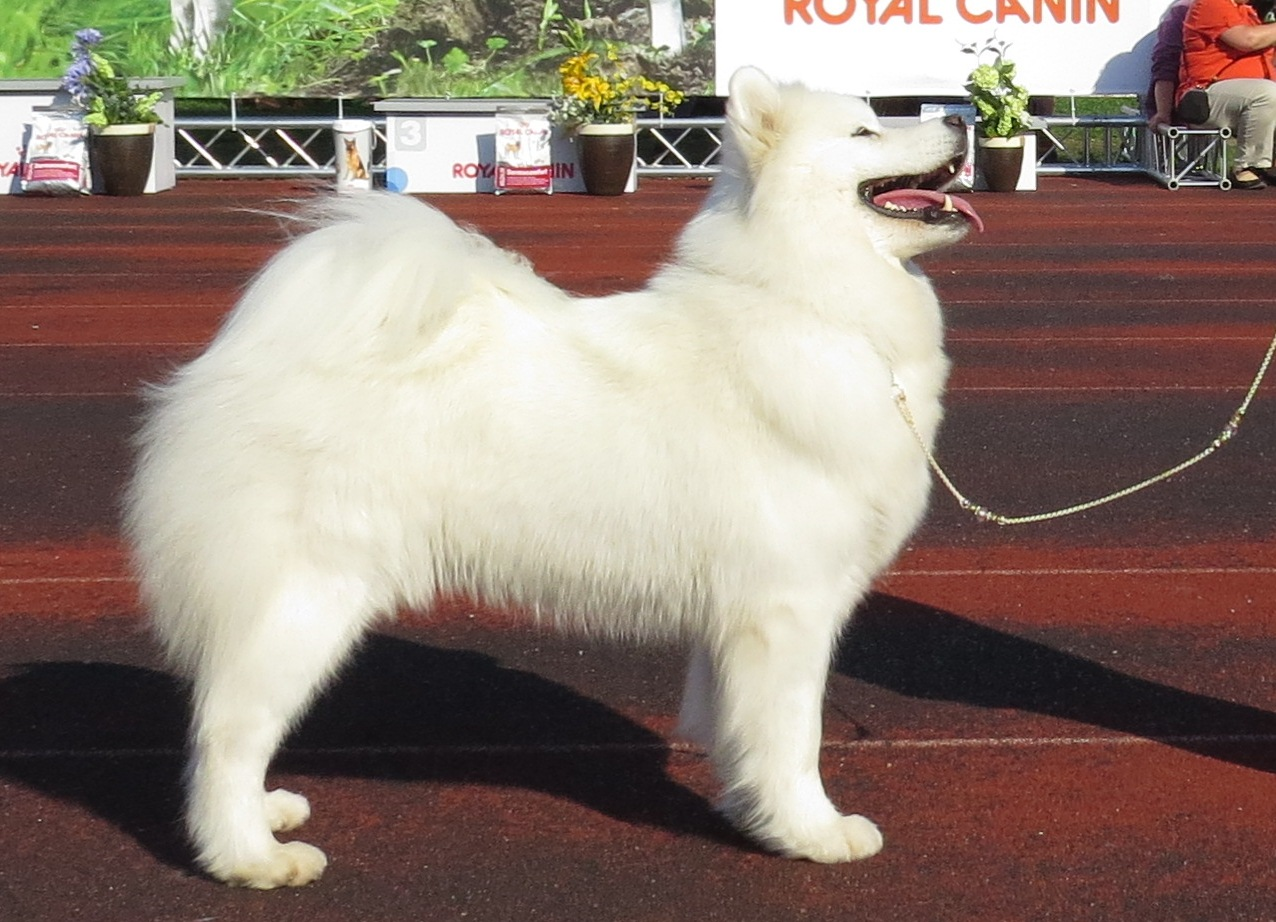 Tallinn, Estonia, duo CACIB 2013, August 17-18